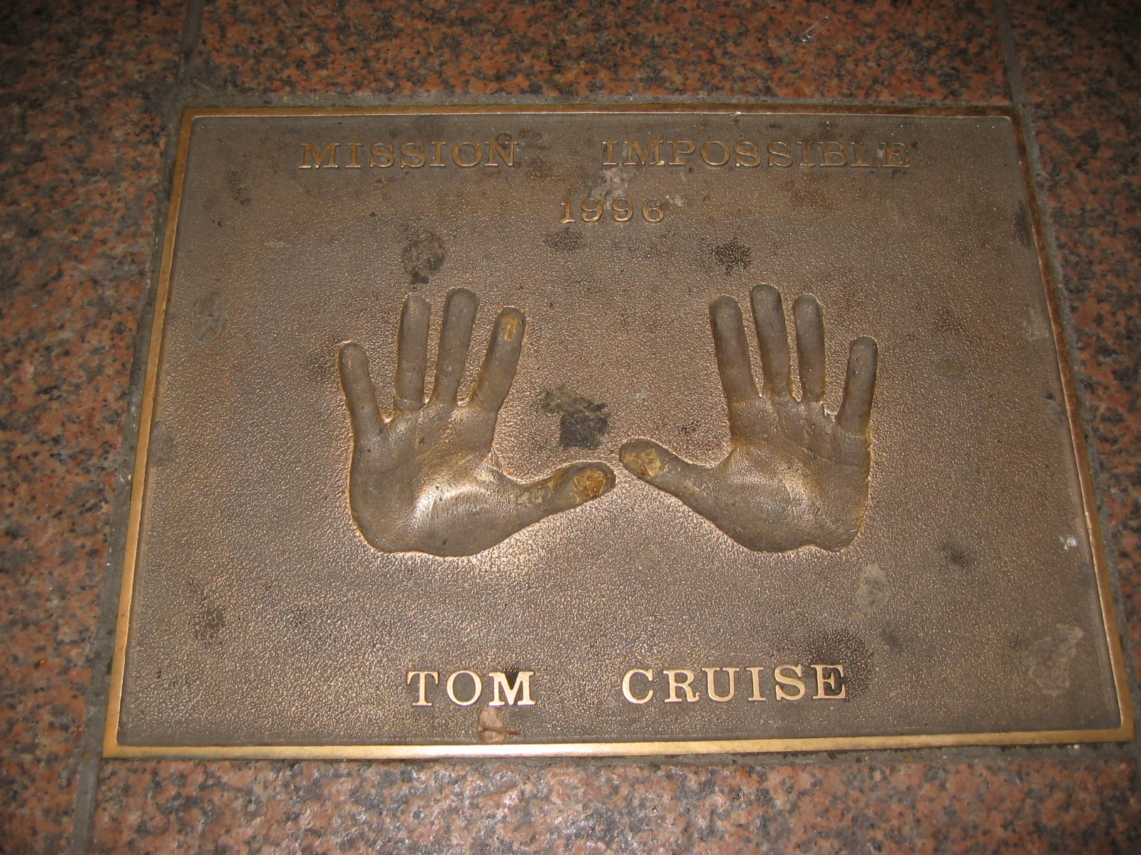 Plaque with Tom Cruise's handprints in Leicester Sq London